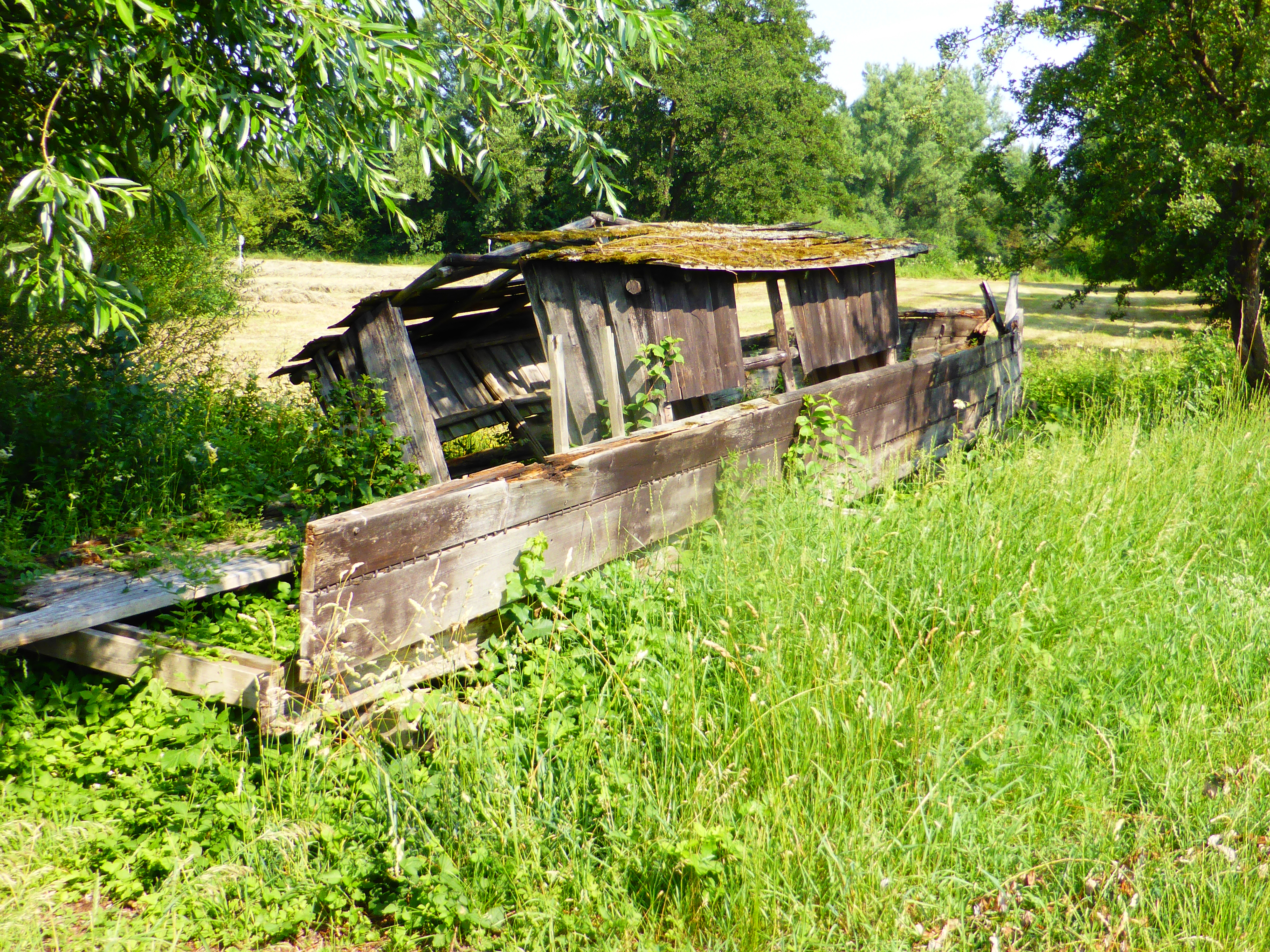 Drahthammer (Amberg) - Wrack eines Eisenschiffs